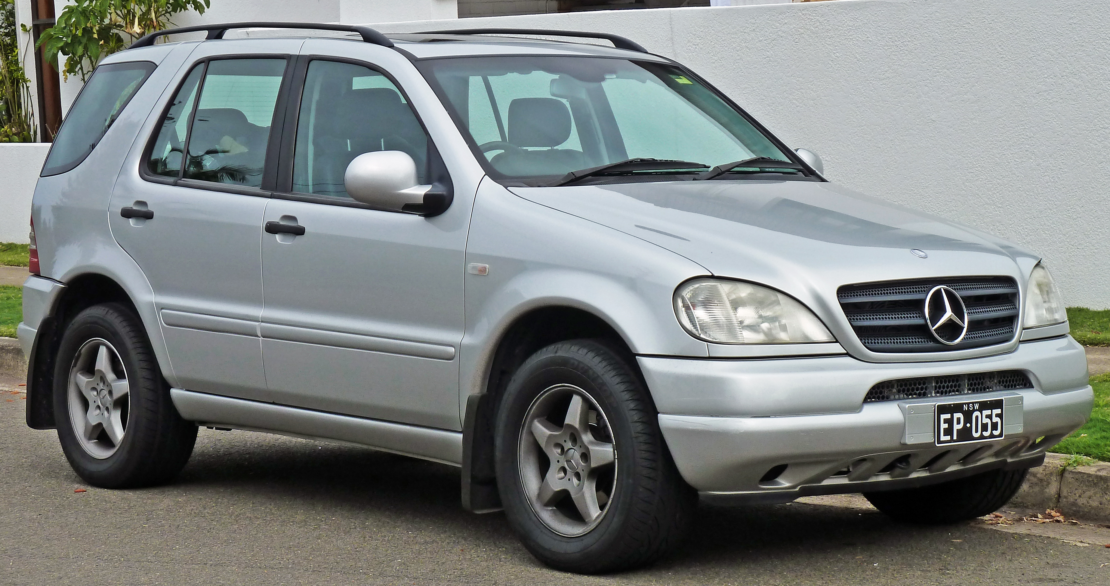 2000 Mercedes-Benz ML 320 (W 163 MY00) wagon. Photographed in Sandringham, New South Wales, Australia.